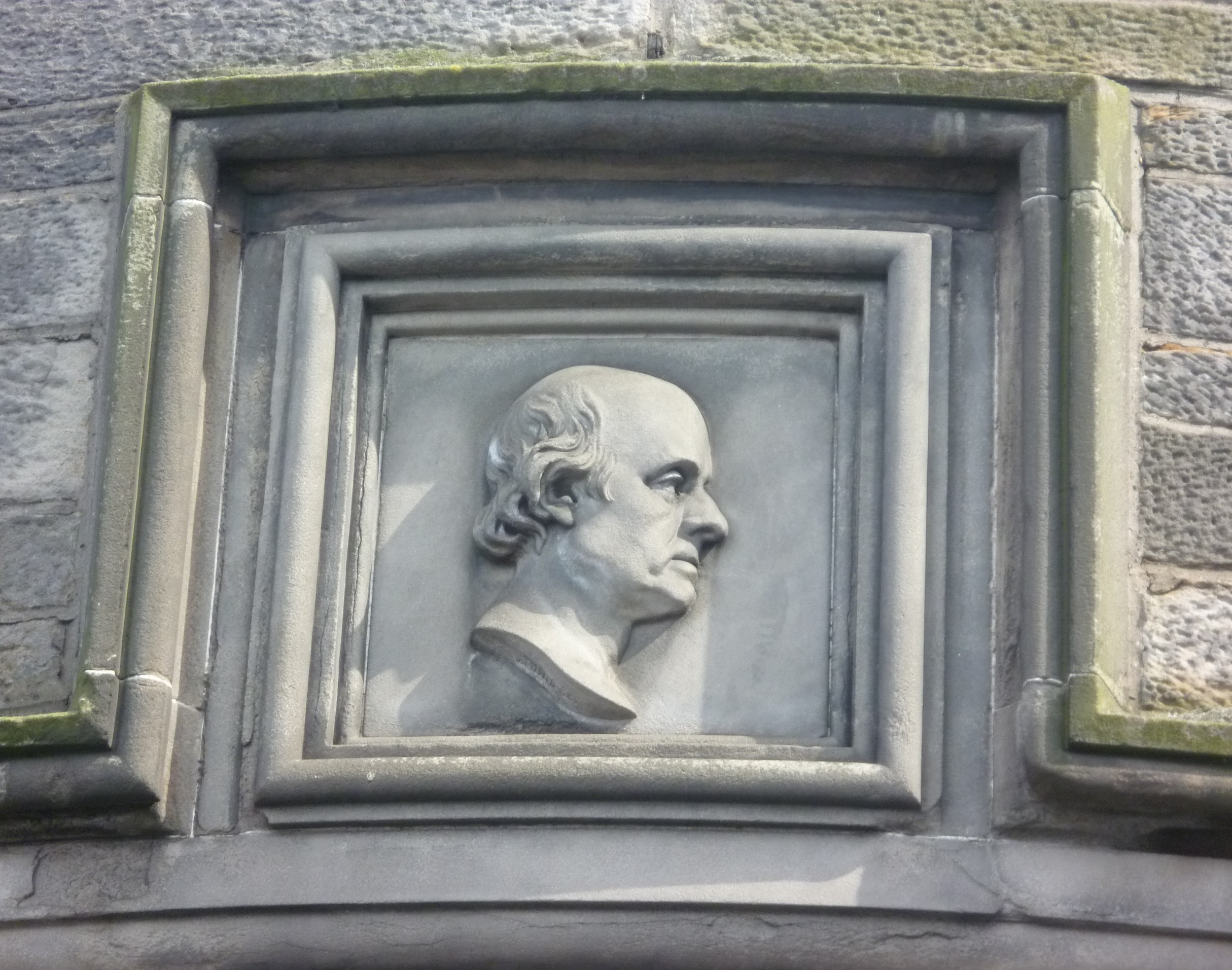 Head of Henry Cockburn on the former Cockburn Hotel in Cockburn Street, Edinburgh. Cockburn had urged his fellow citizens to remain vigilant in ensuring that Victorian expansion and improvements did not irrevocably damage or obliterate the built heritage and environment. Cockburn Street, created five years after his death to provide a more direct access from the High Street to Waverley Station, resulted in the partial demolition of several Old Town closes. With apparently unconscious irony the new street was named in his honour.